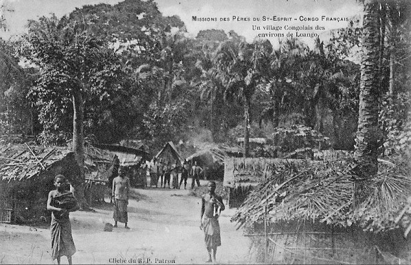 A village with houses in vegetable materials, roofs with palm leaves and walls